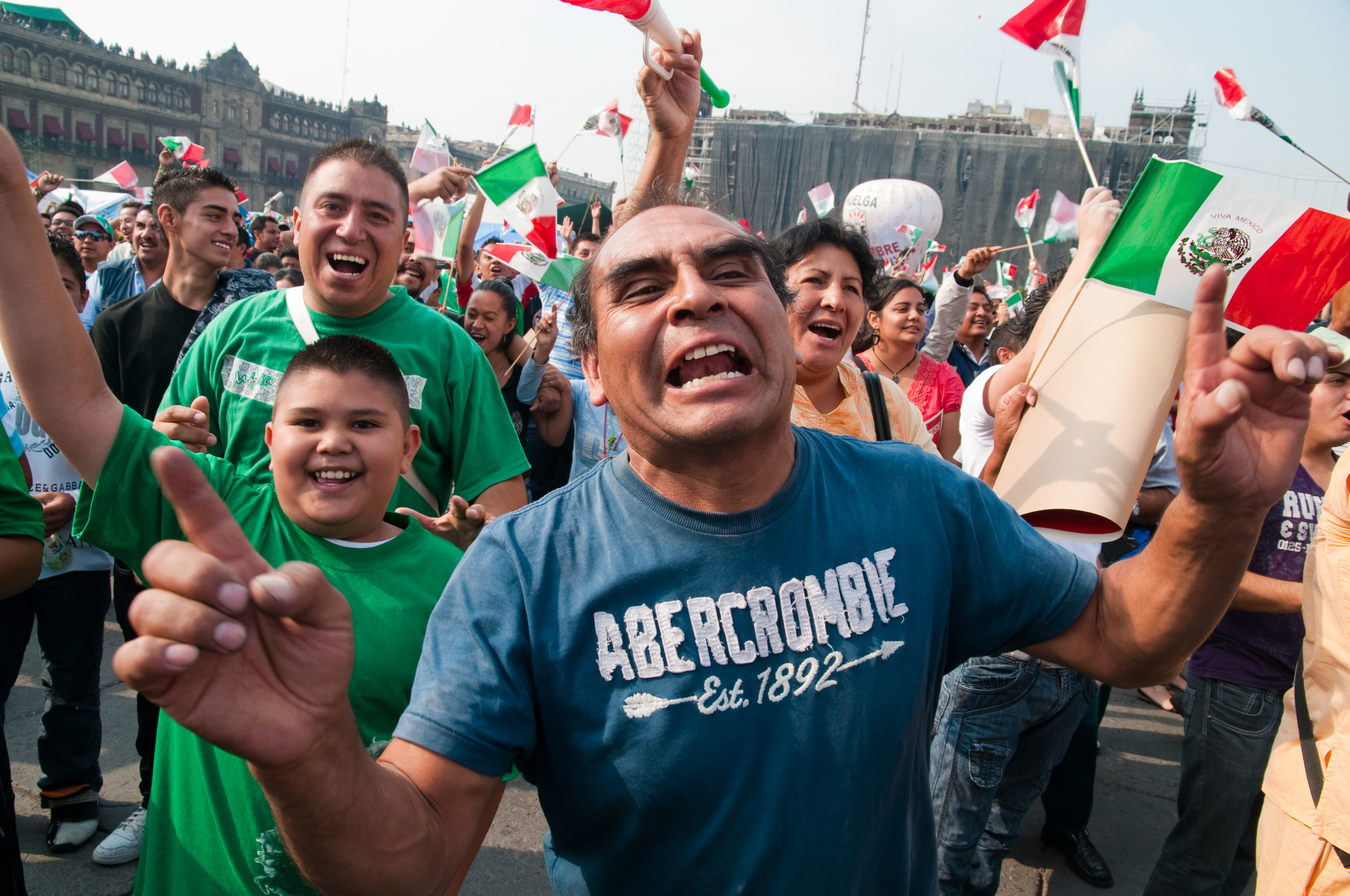 Images from Mexico City's FIFA Fan Fest